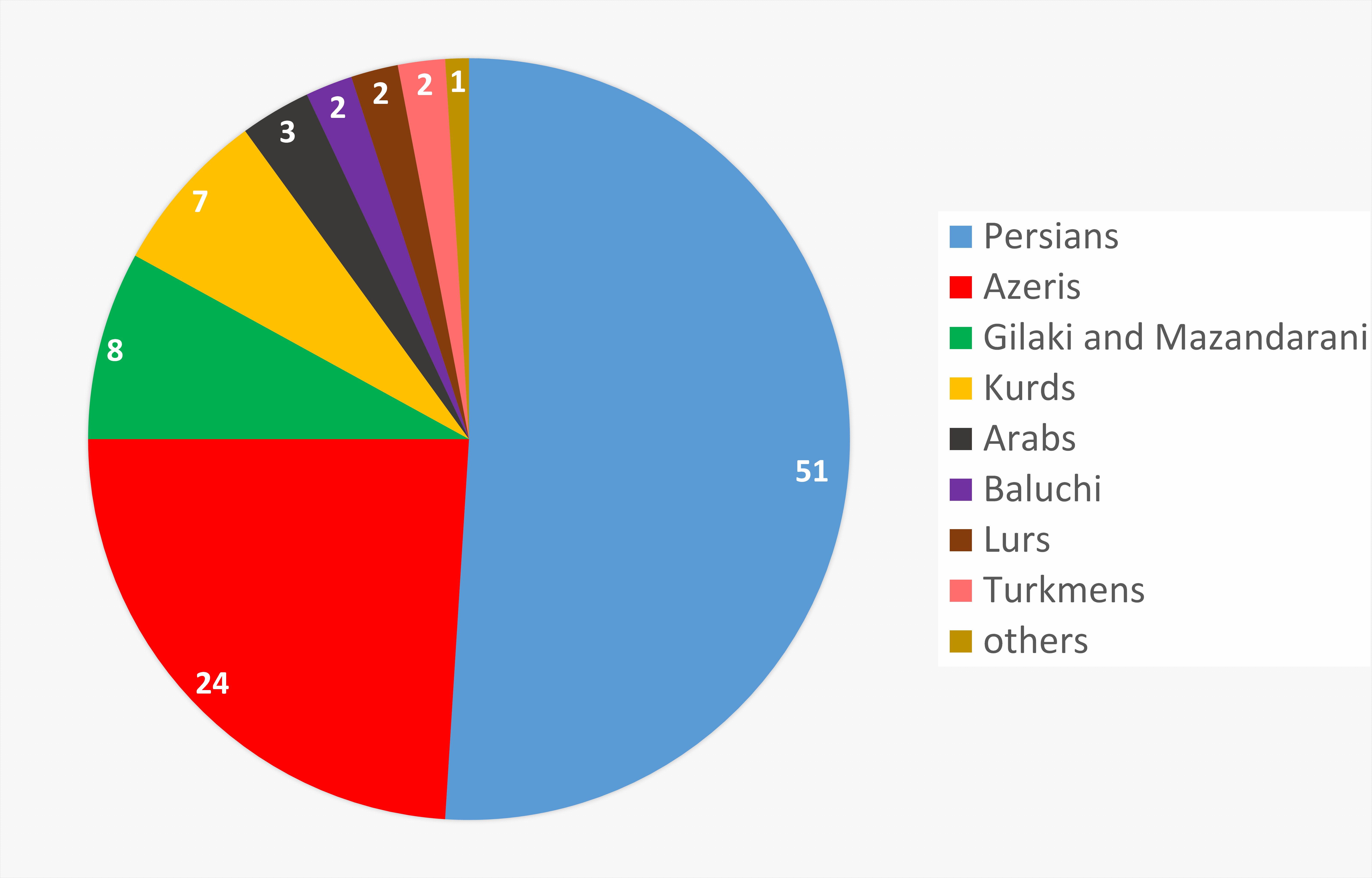 data by: Country Profile (IRAN). UNFPA IRAN. مازِرونی: ونجه بییتمی: Country Profile (IRAN). متحد ملل سازمان ِجمهییتون دایره، ایران وسه.